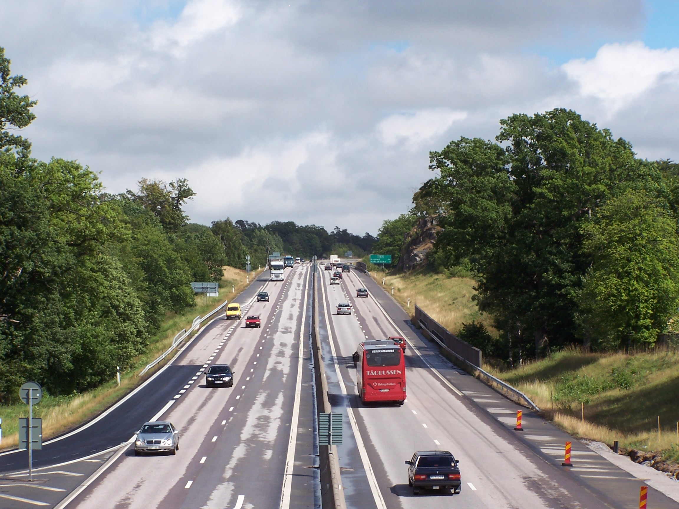 E22 Trafikplats Nättraby heading west towards Karlskrona